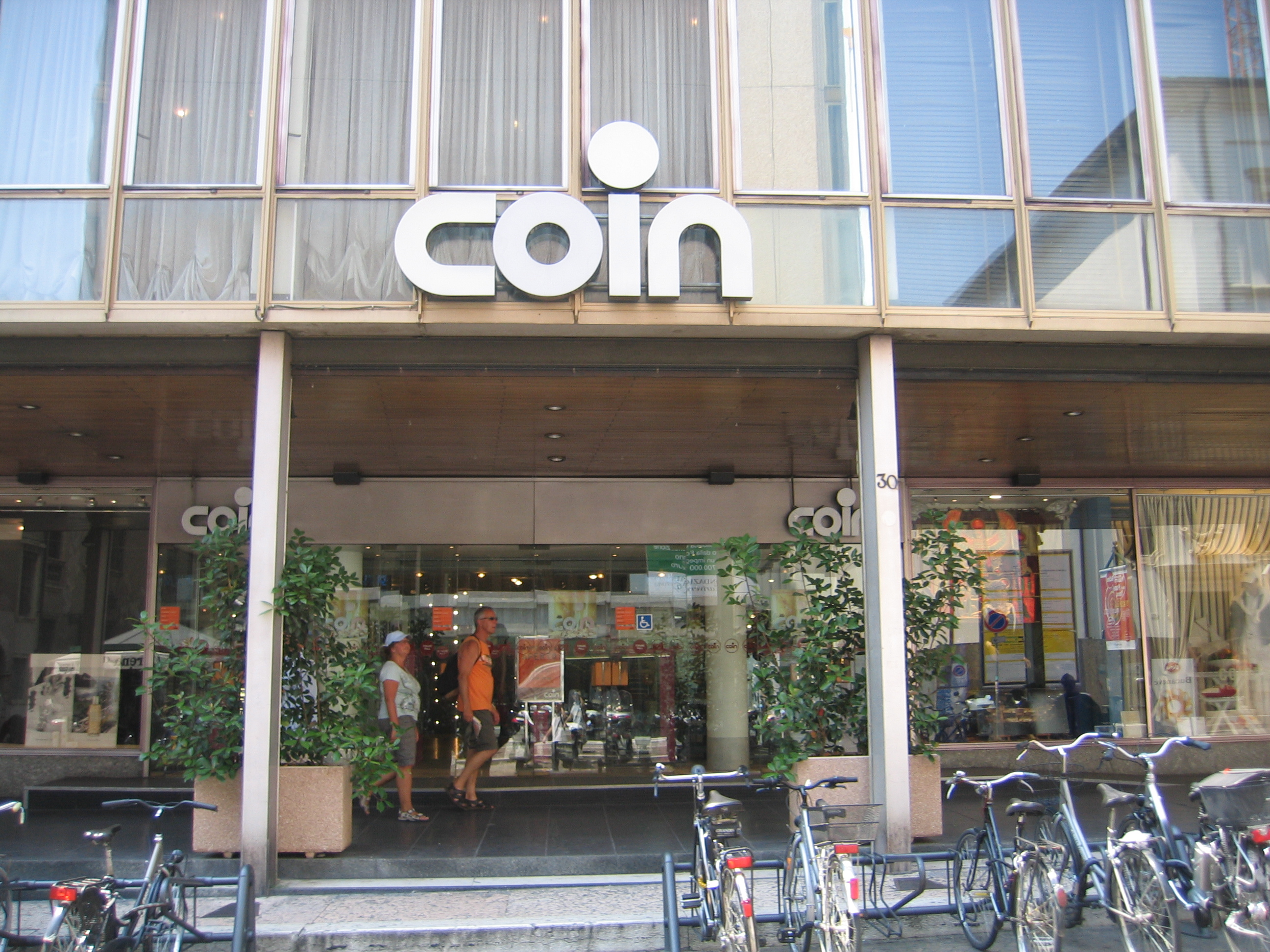 Coin shop in Verona